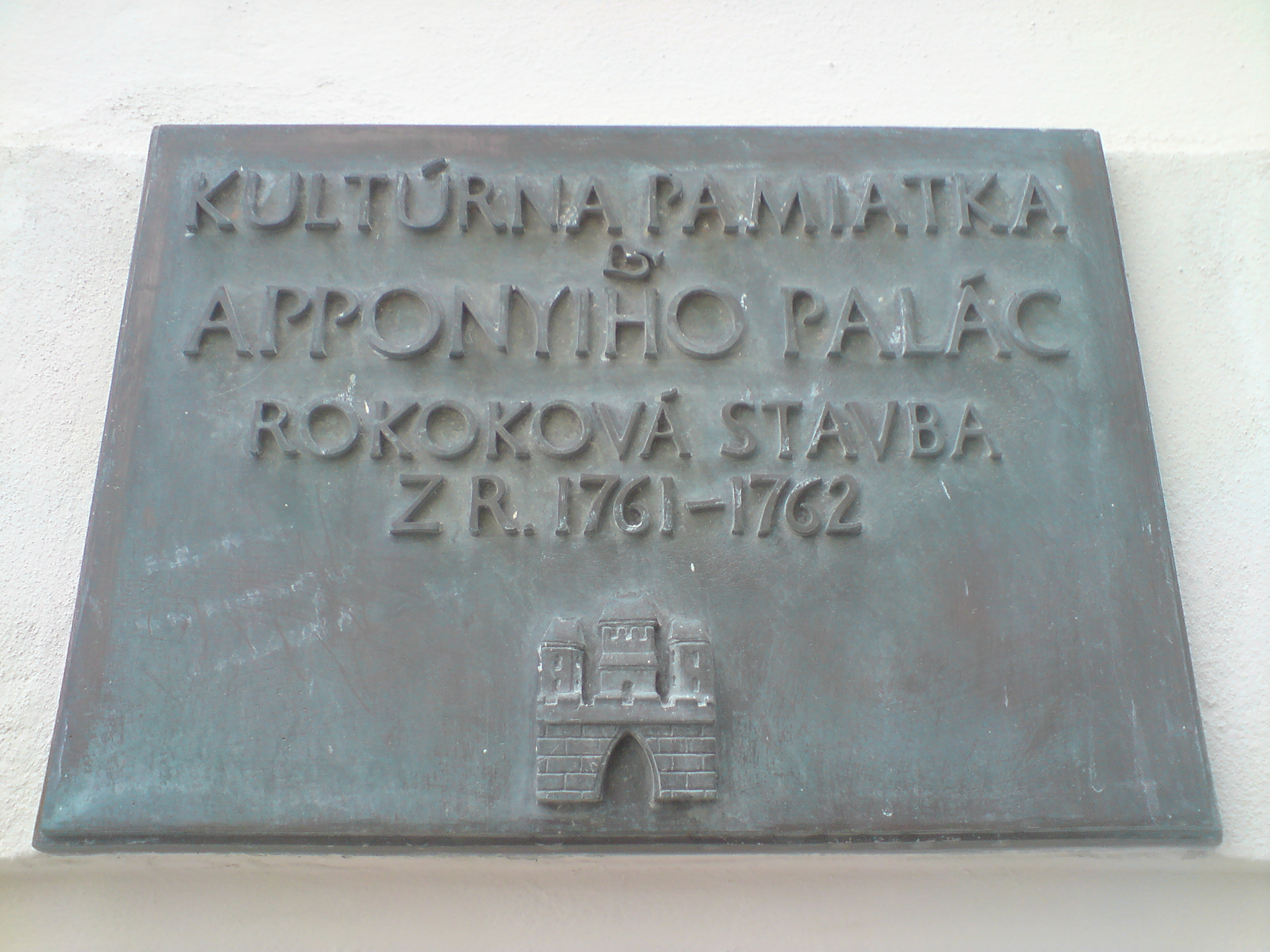 Plaque on the Apponyis' palace, Radničná, Bratislava; The sign reads: Cultural monument; Apponyi's palace; rococo building from years 1761-1762